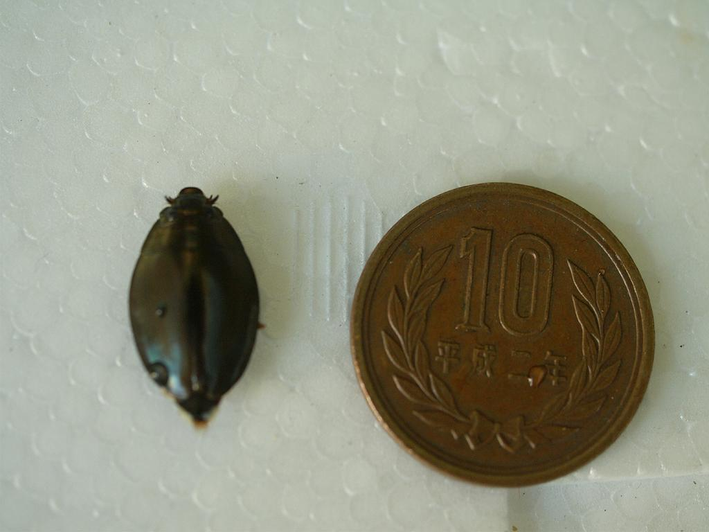 Dineutus mellyi (Gyrinidae) on Okinawa Island, Okinawa Prefecture, Japan